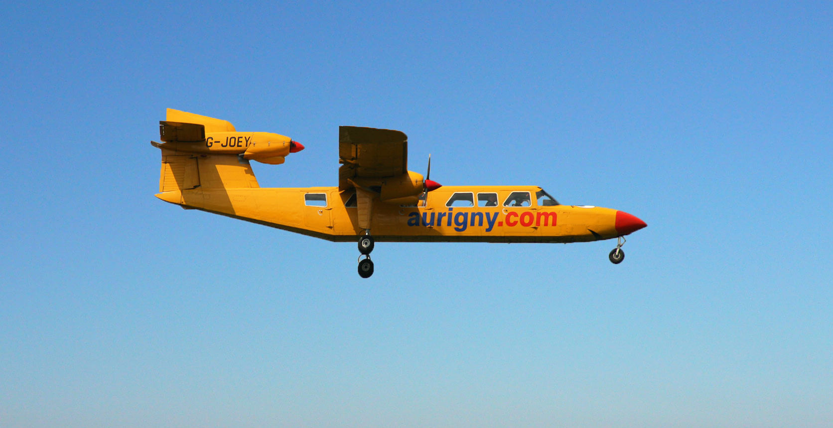 G-JOEY